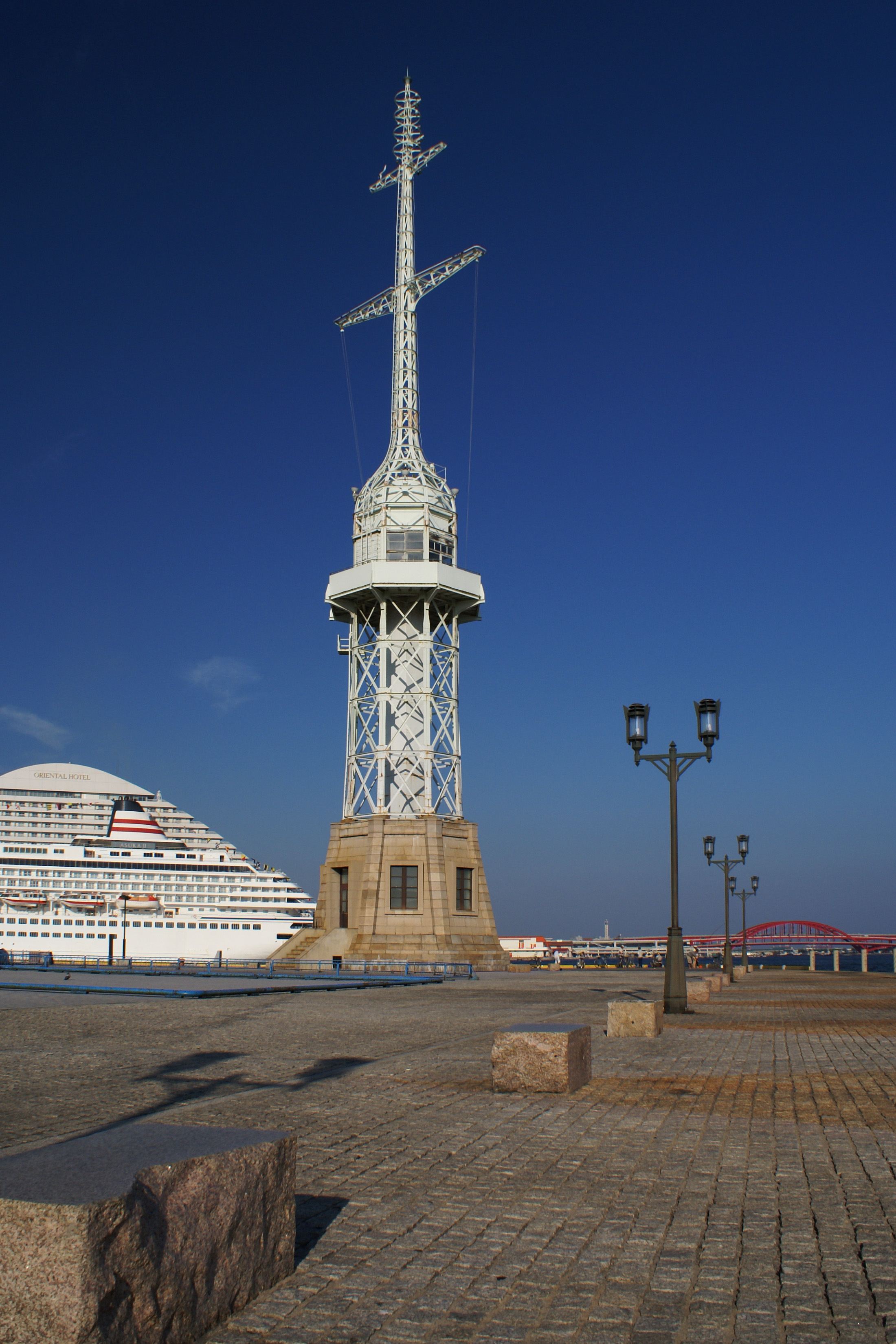 "Old Kobe harbor signal cabin" on the wharf "Takahama passenger ship terminal" of the Kobe harbor ( Kobe, Hyogo, Japan)